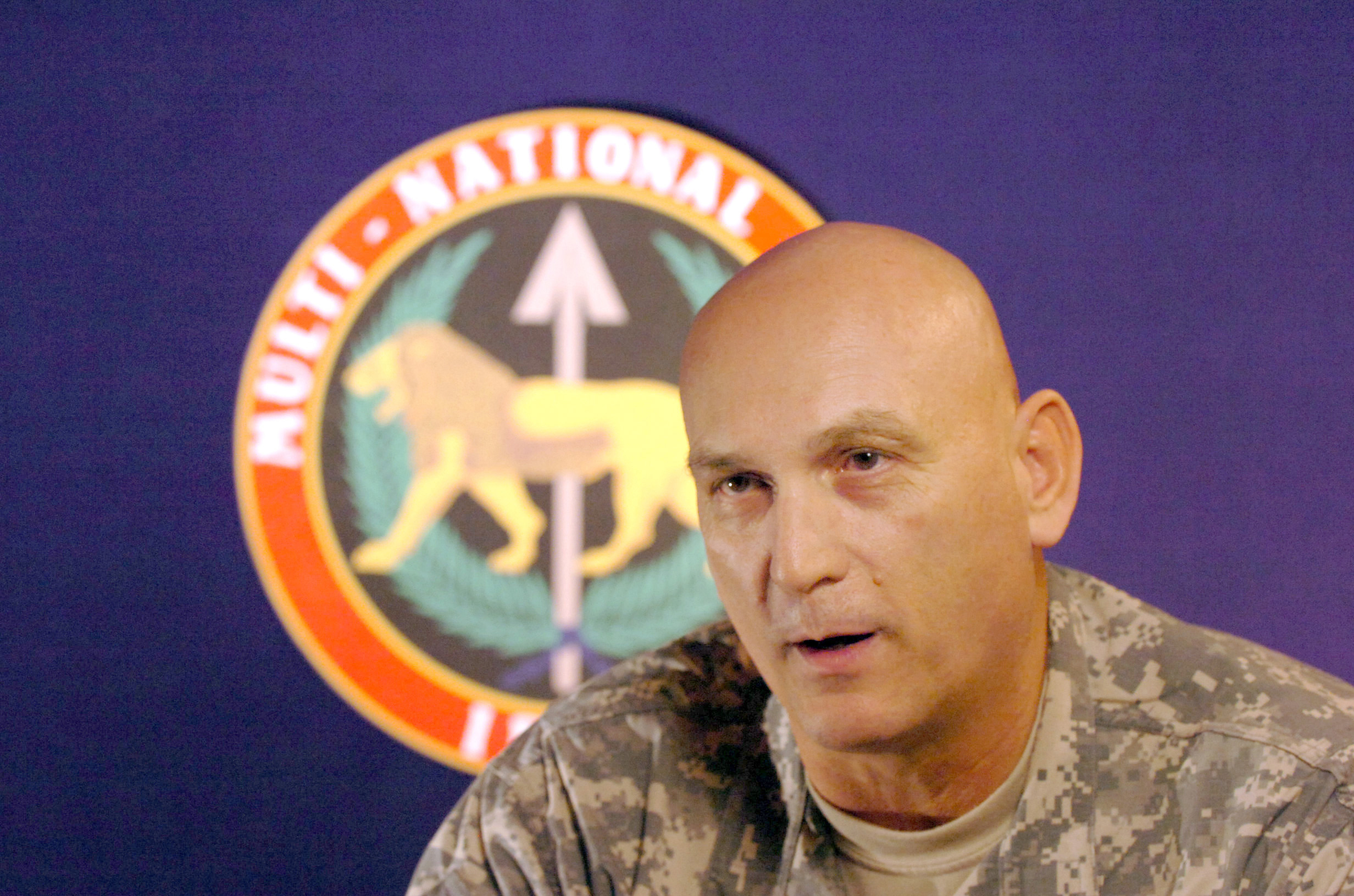 U.S. Army Lt. Gen. Raymond T. Odierno, commander of Multi-National Corps-Iraq, speaks with Central Texas based reporters via satellite from Camp Victory, Iraq, Feb. 13, 2007. During the 30-minute question and answer session, Odierno spoke about the accomplishme nts of coalition and Iraqi forces and the implementation of the new Baghdad security plan.